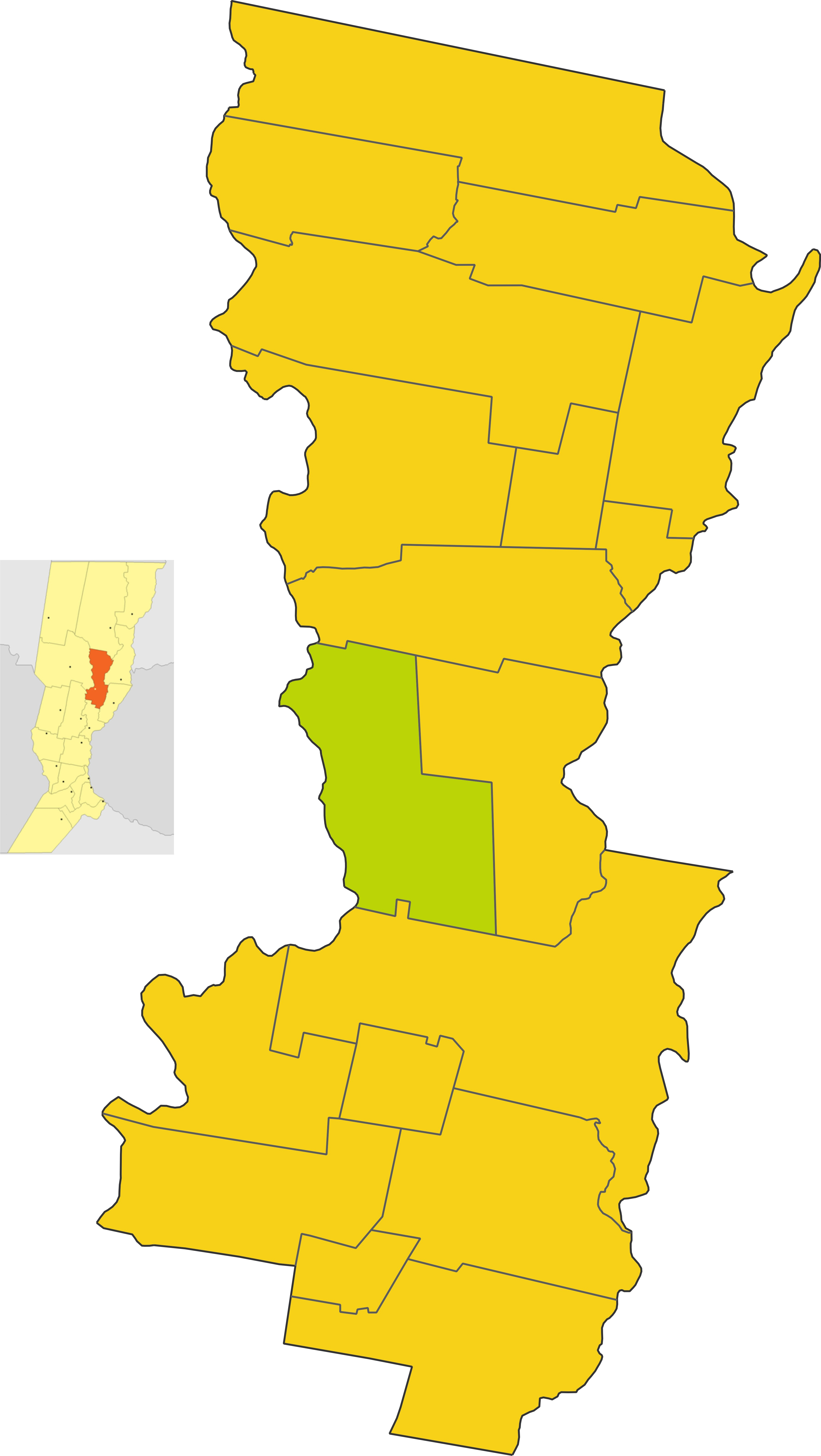 Map of the comuna de Ramayon in San Justo department, Santa Fe province, Argentina